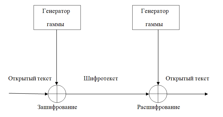 Cipher